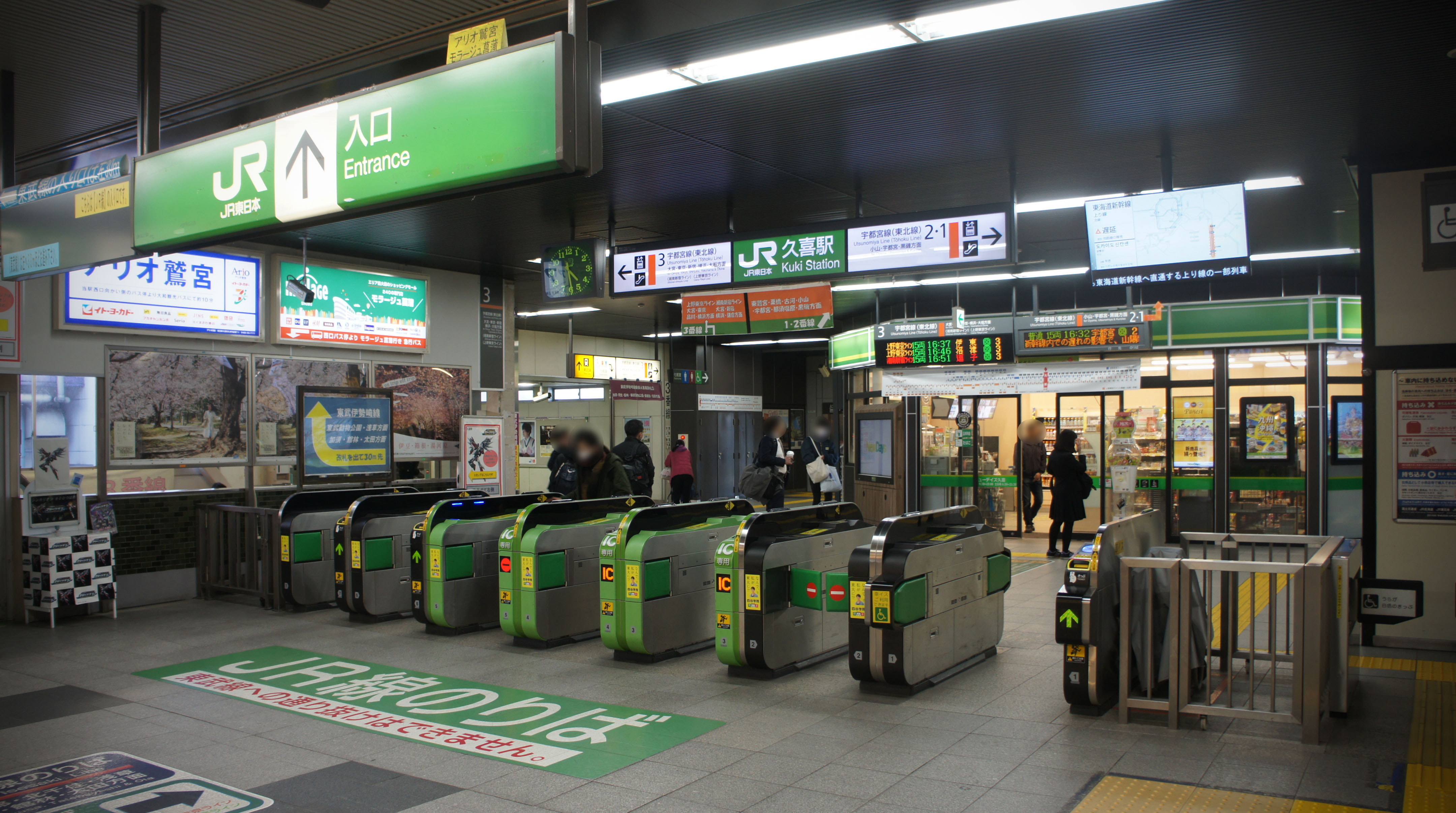 Gates of JR Tohoku-Main-Line (Utsunomiya-Line) Kuki Station Sony NEX-3